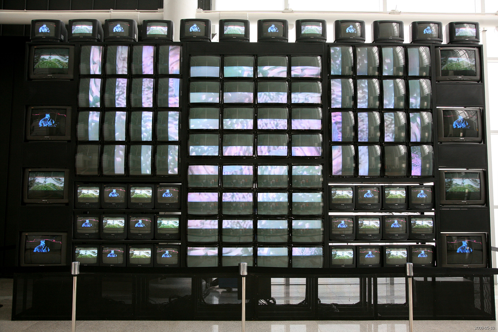 Gyeongju, North Gyeongsang province, South Korea